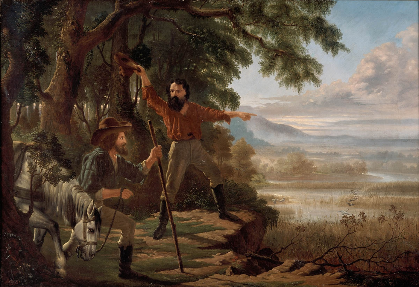 Arrival of Burke & Wills at Flinders River, painting, oil on canvas, 89.6 x 131.6 cm, by Edward Jukes Greig